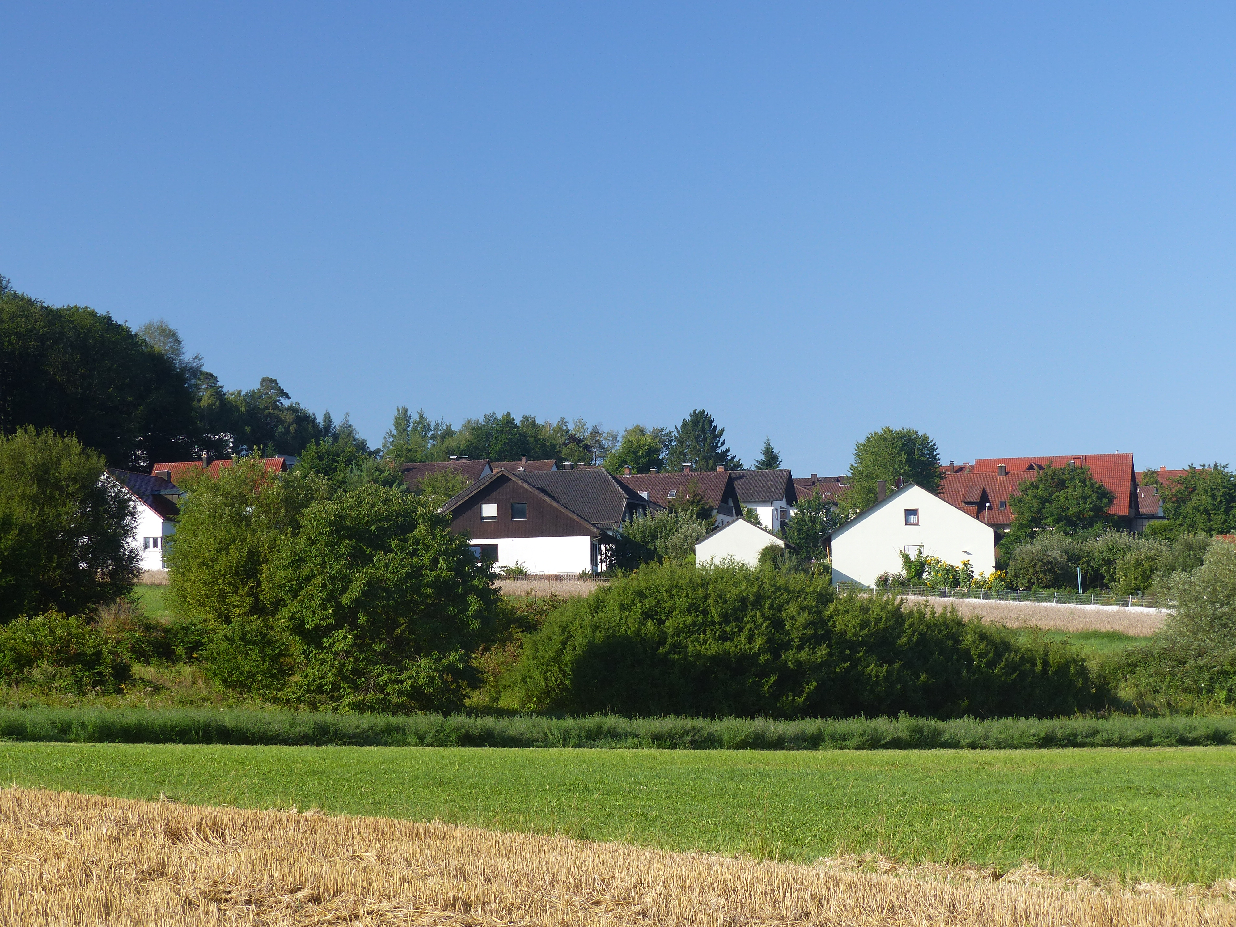 The settlement Altreuth, a district of the municipality of Pretzfeld.